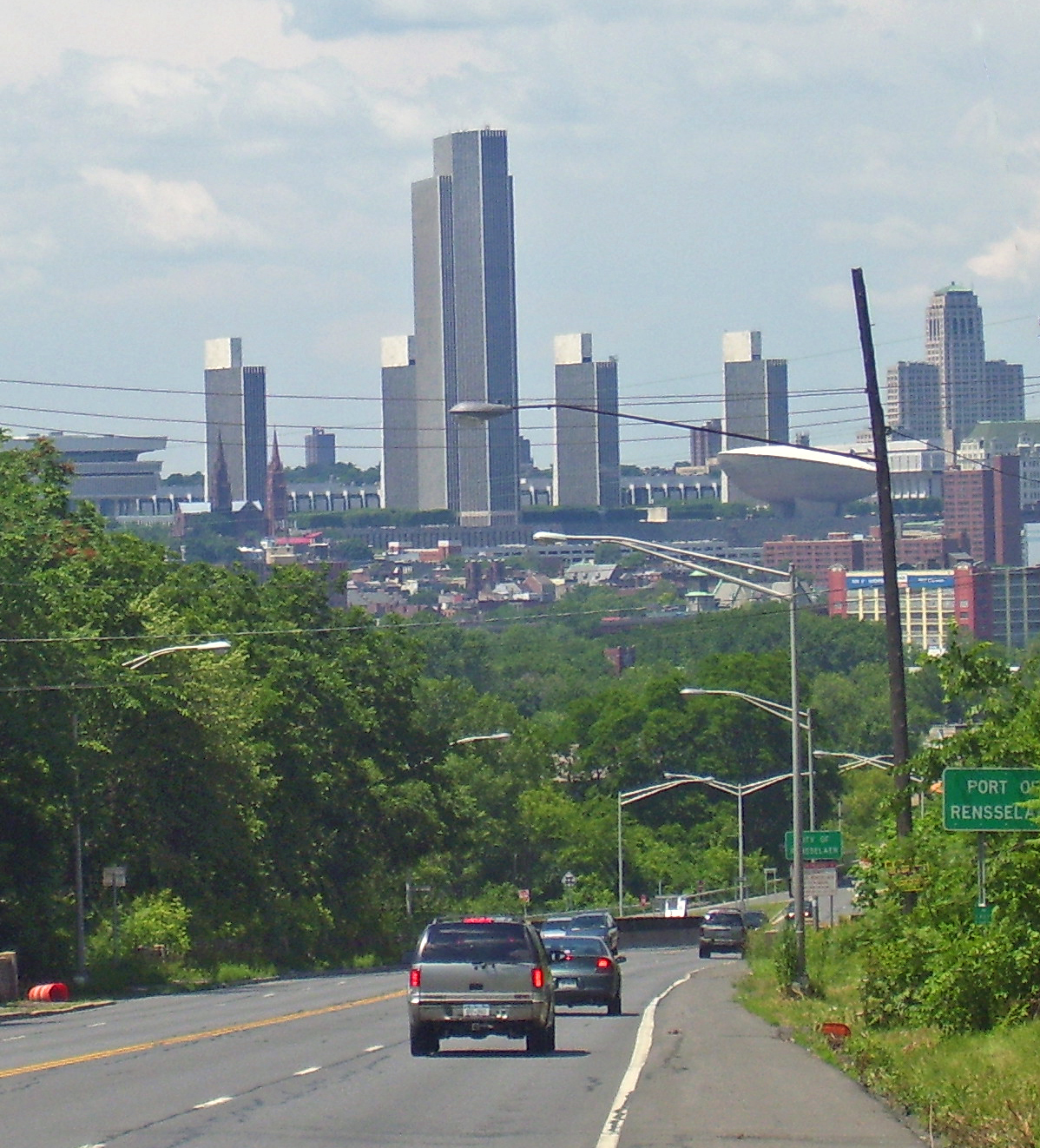 View along northbound US 9/westbound US 20 of Empire State Plaza, center of New York State government, from Rensselaer, NY.